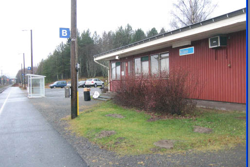 Kitee railway station in Tolosenmäki, Kitee, Finland